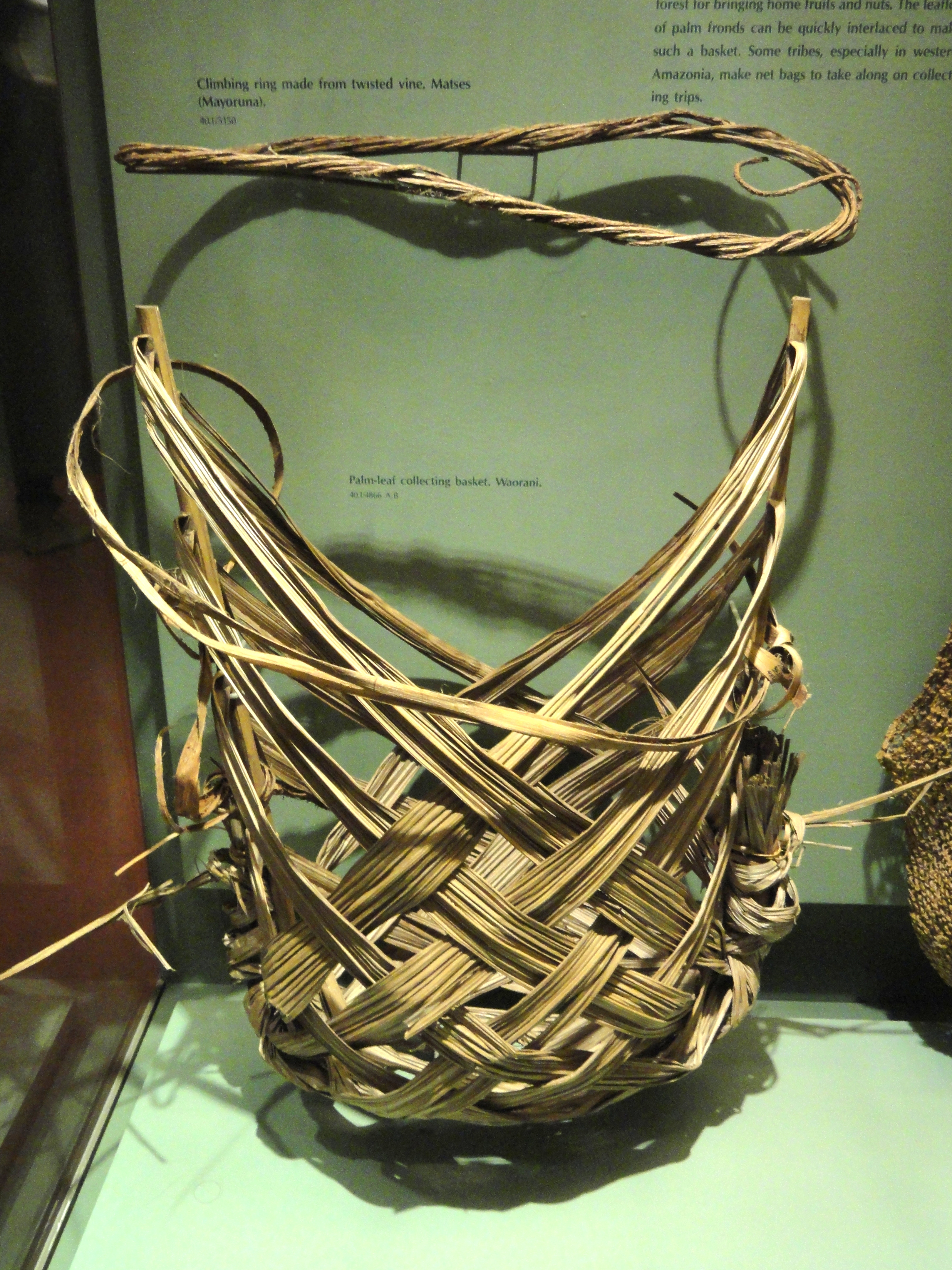 Exhibit in the South American collection of the American Museum of Natural History, Manhattan, New York City, New York, USA.